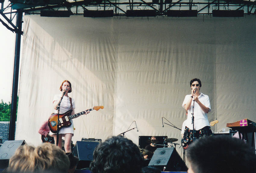 Mary Hansen and Lætitia Sadier perform with Stereolab in Central Park, New York City, July 22, 1995.